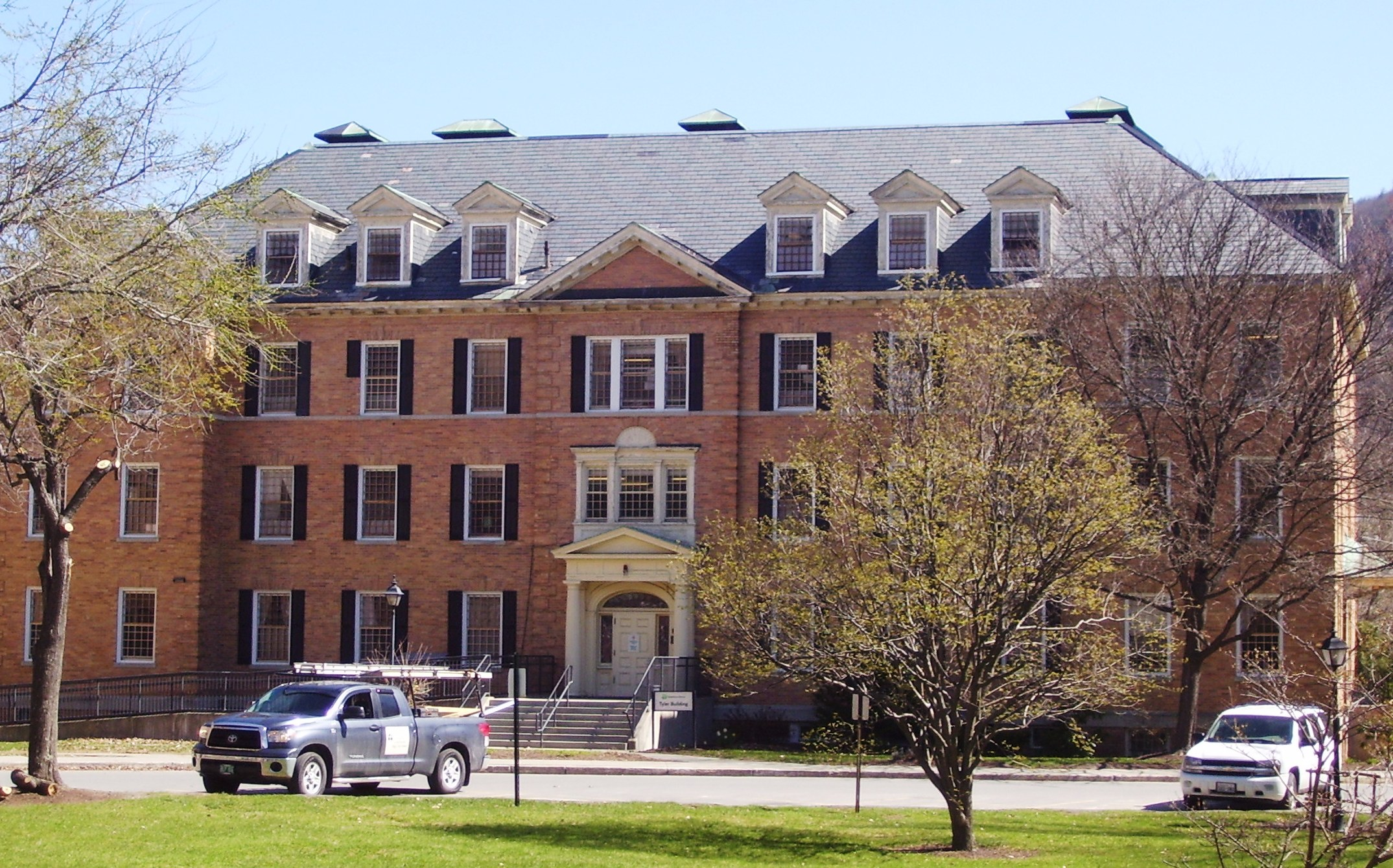 The Brattleboro Retreat, founded in 1834, is a facility for the treatment of mental health disorders and drug addiction. It is located in Bratteboro, Vermont on a site of over 1000 acres on the Retreat Meadows inlet of the West River. Brattleboro Retreat was "the first facility for the care of the mentally ill in Vermont, and one of the first ten private psychiatric hospitals in the United States". (Source: "Mission & History" on the Brattleboro Retreat website)